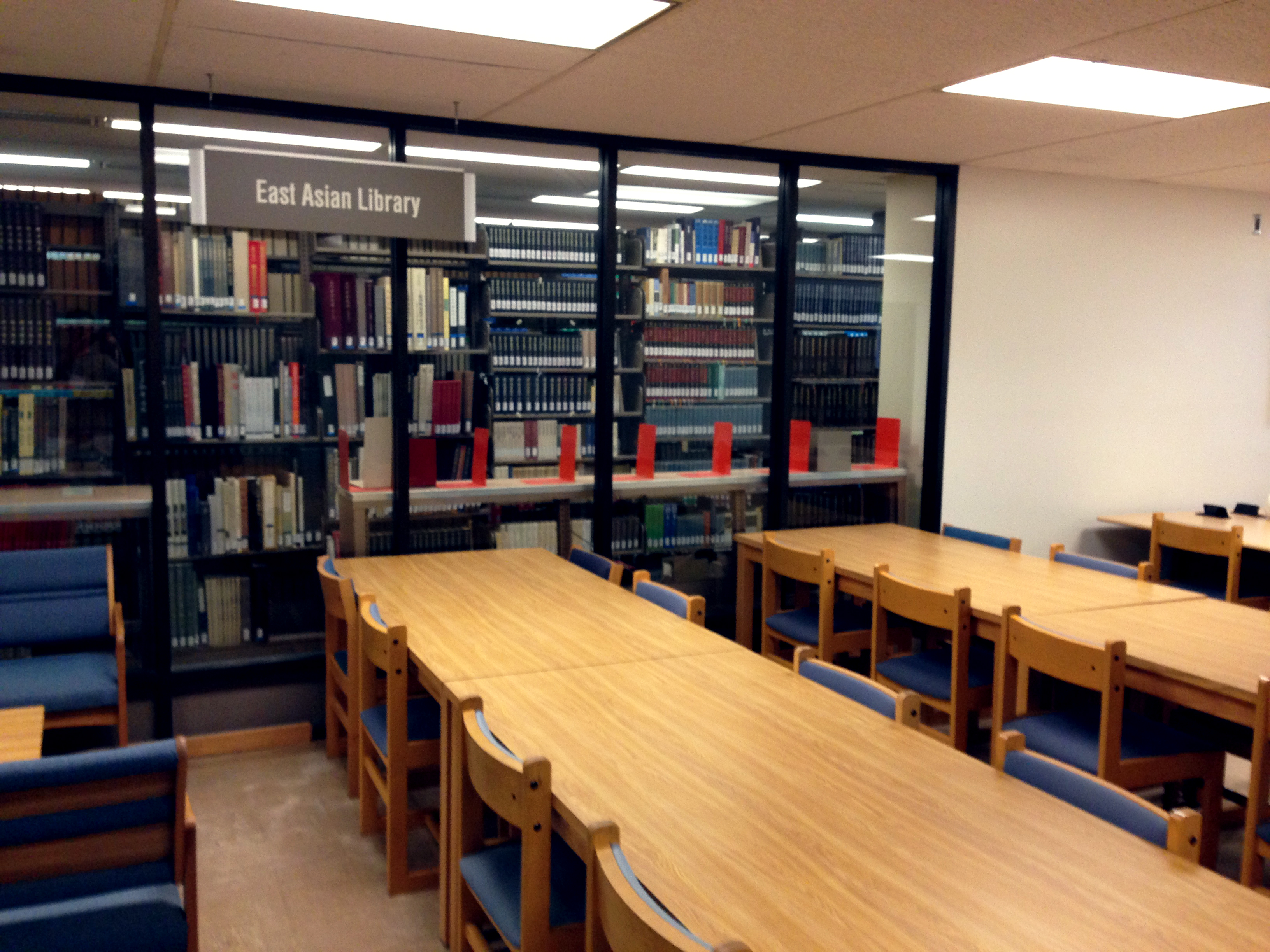 The East Asian Library in Davidson Library, UCSB